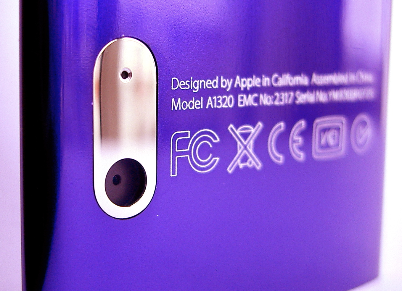 Photograph of the camera, microphone and speaker detail of a purple 5th generation iPod Nano.